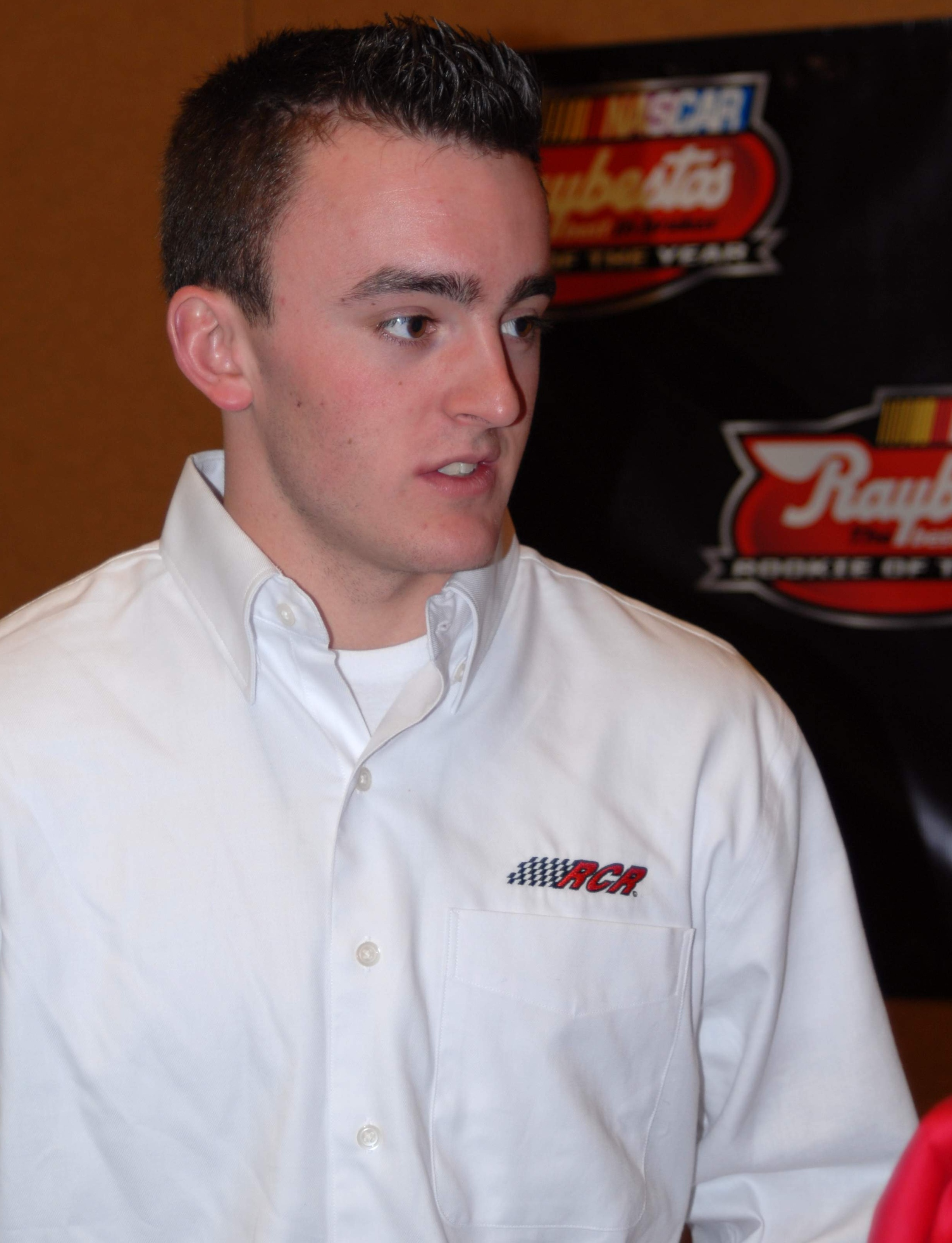 NASCAR driver Austin Dillon at the National Motorsports Press Assocation event in 2010. Photo by Ted Van Pelt. Licensed Creative Commons